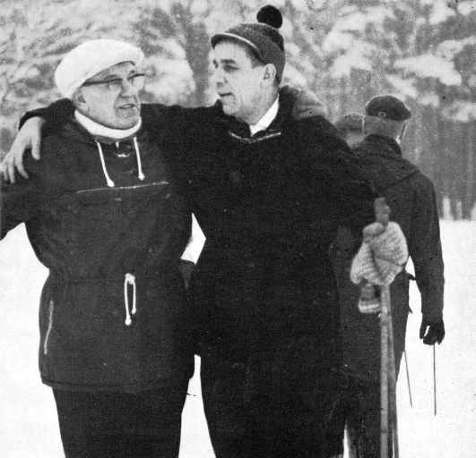 Photograph of the Finnish Members of Parliament Armas Leinonen (1900–1985) and Mikko Juva (1918–2004) after a skiing competition.